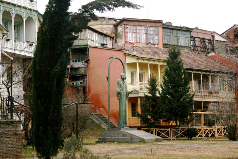 Yetim Gurdji Statue in Old Tbilisi.)